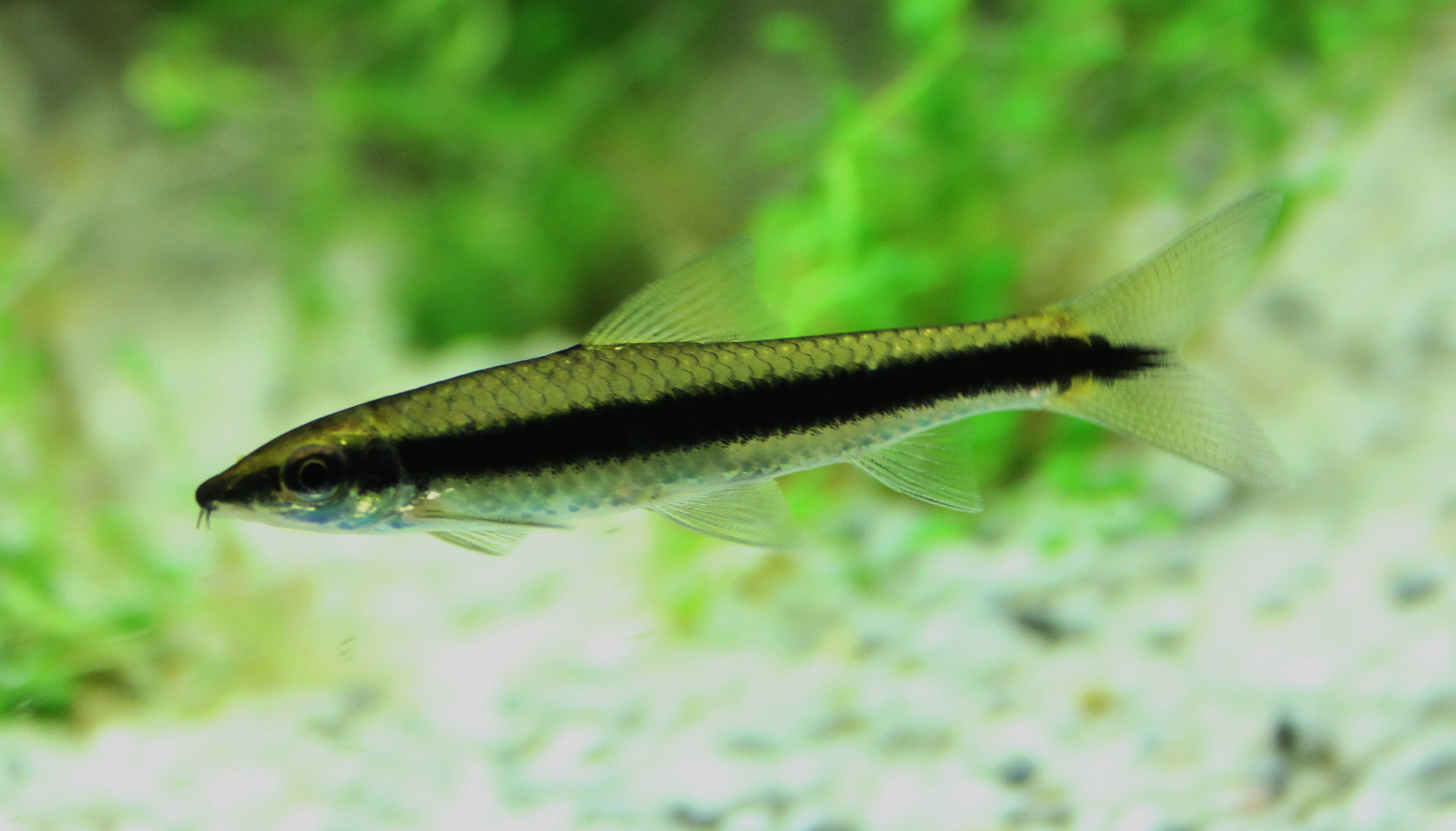 Crossocheilus oblongus